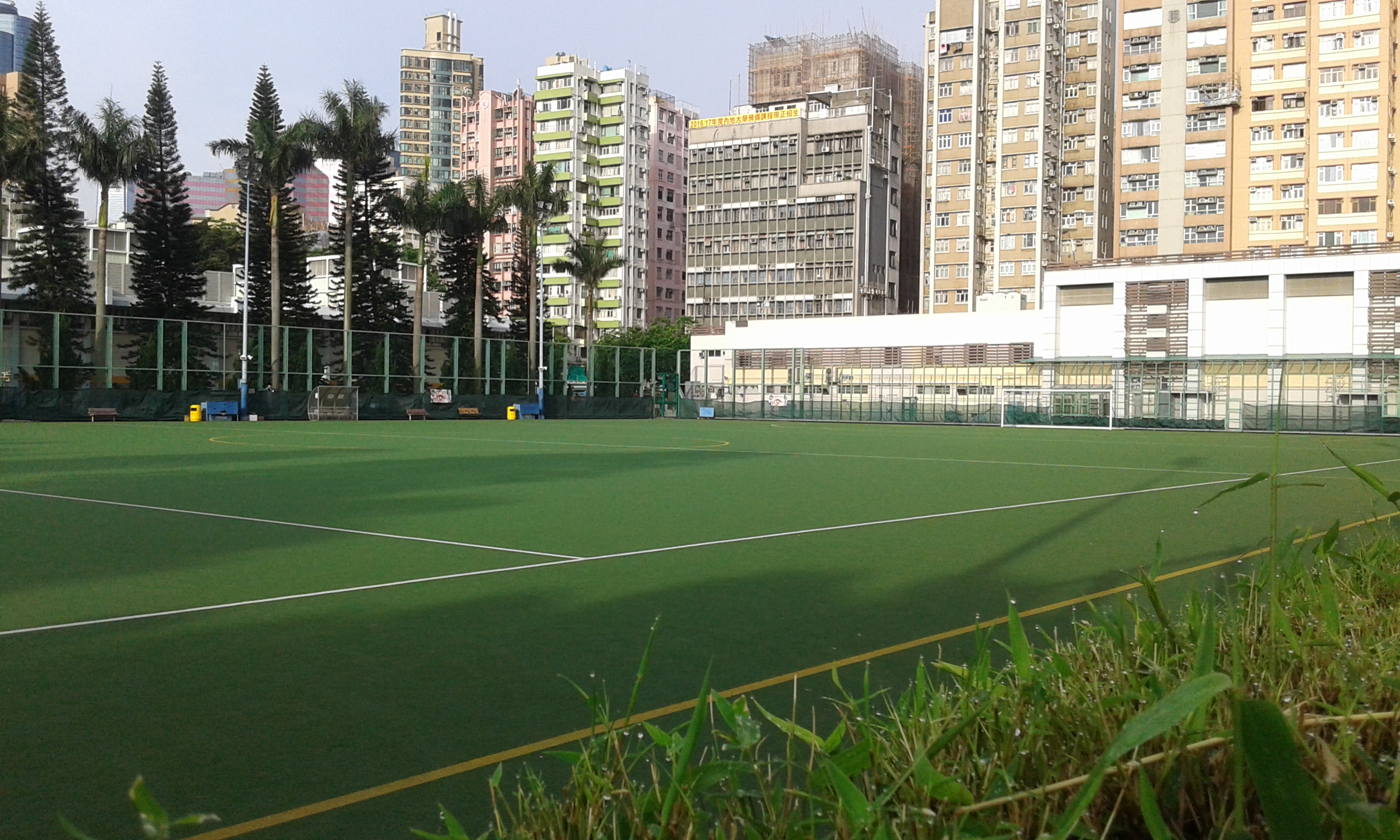 Boundary Street Recreation Ground viewed from Boundary Street, Hong Kong.